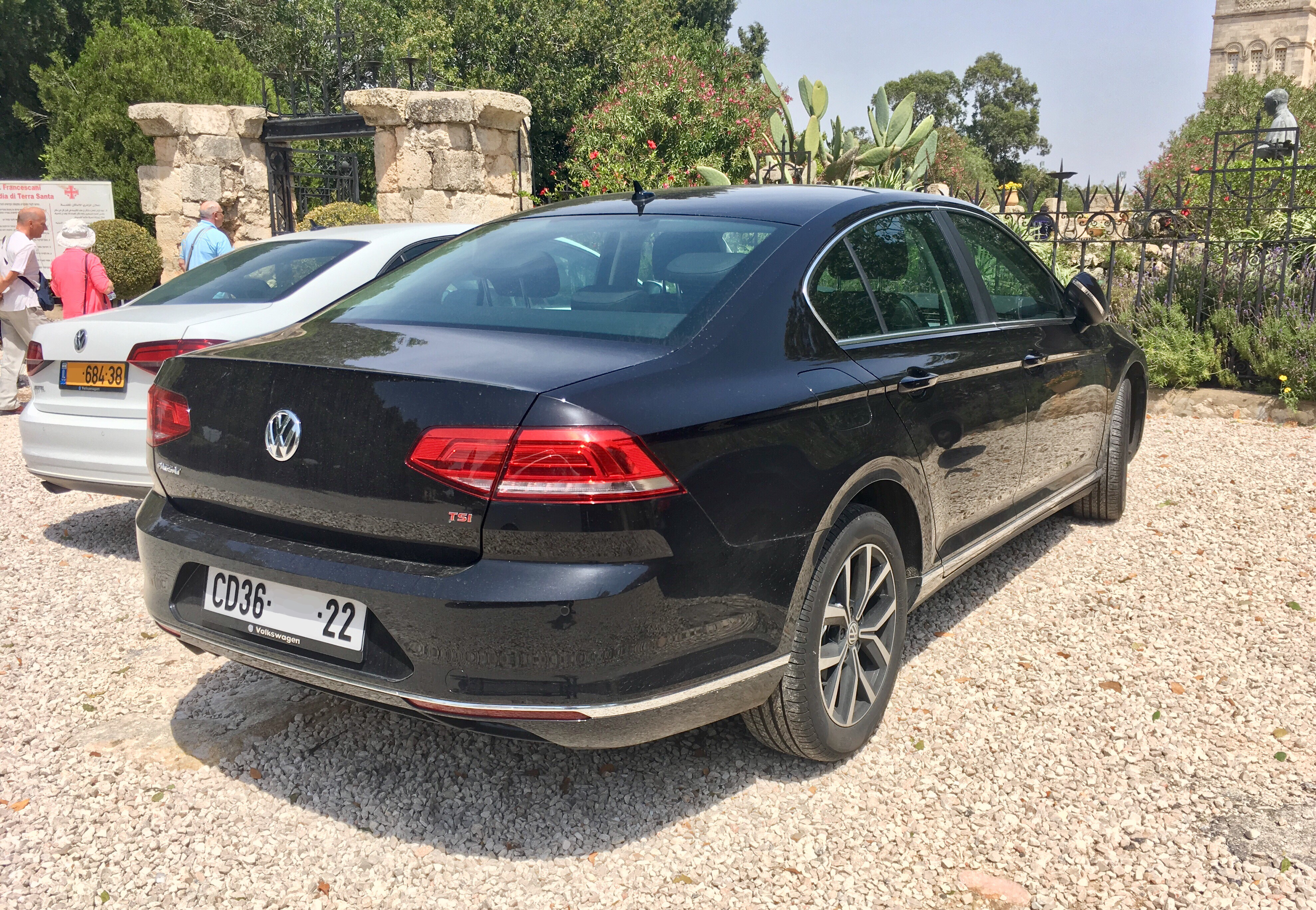 VW Passat Passat B8 on Tabor Mt, Israel